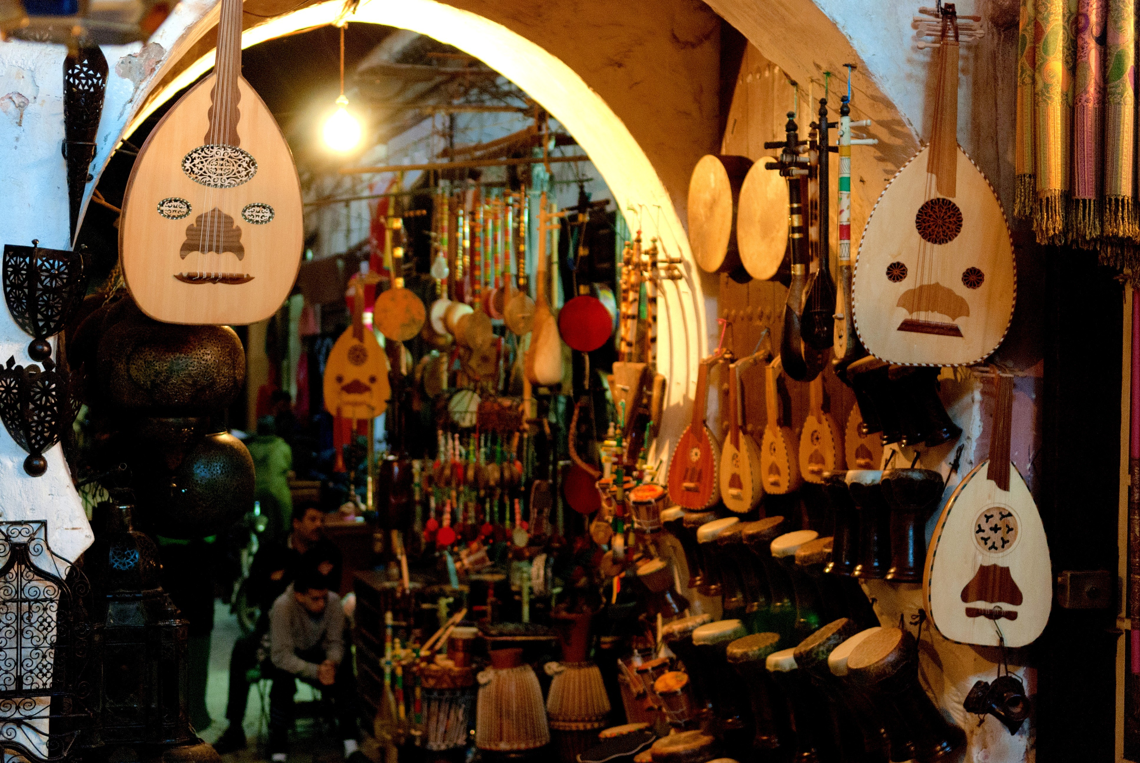 Medina guitars, Marrakesh, Morocco